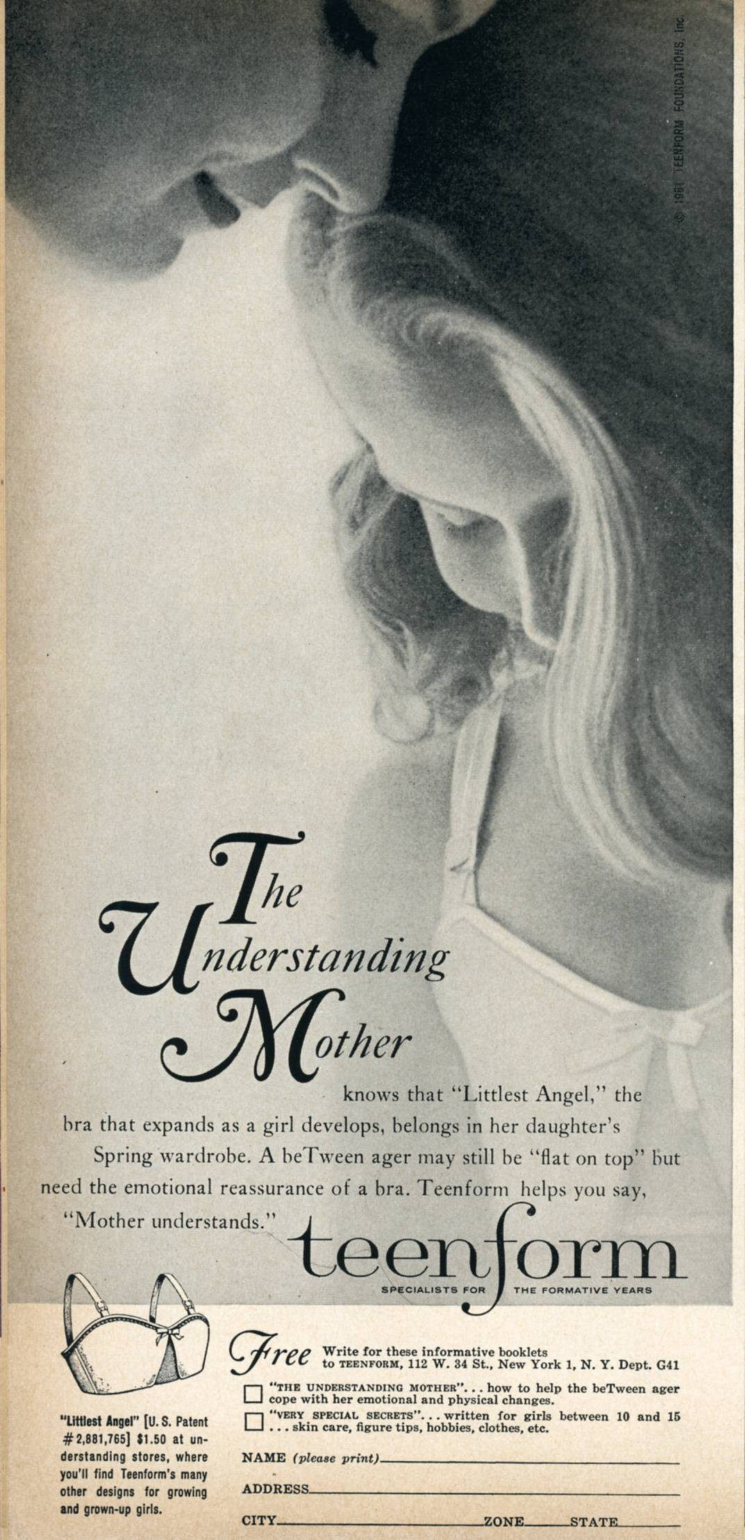 Photo of a Teenform bra ad in Good Housekeeping, April 1961. A copyright renewal search was done in artwork for the year 1989 and beyond. There were no renewals for the Teenform Foundations Inc. Corporation, nor for the Wacoal America Inc. Corporation, which is the last listed owner of the Teenform brand. The Good Housekeeping magazine copyright renewal status would have no bearing on whether or not this ad was now in the public domain because magazines are considered to be collective works; any ads in them must have their own copyright registration to be considered protected. US Copyright Office page 3-magazines are collective works (PDF) There's no evidence the Teenform Foundations Inc. Corporation renewed the copyright on the ad.